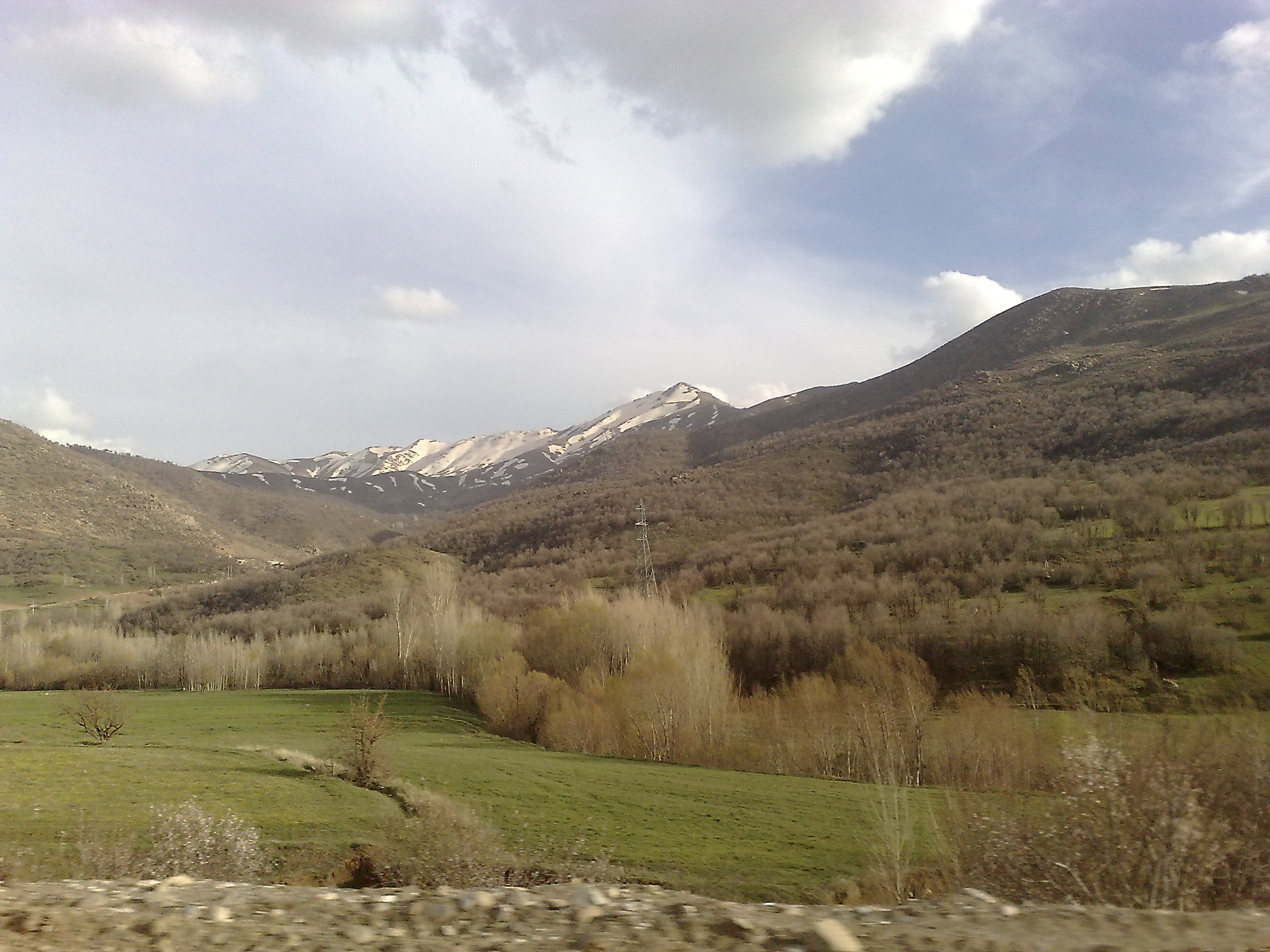 Jungle-Baneh-Kurdistan- Iran